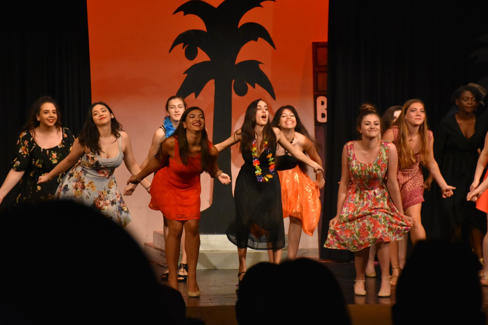 acting